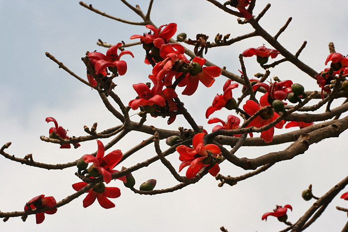 Semal Bombax ceiba in Kolkata, West Bengal, India.